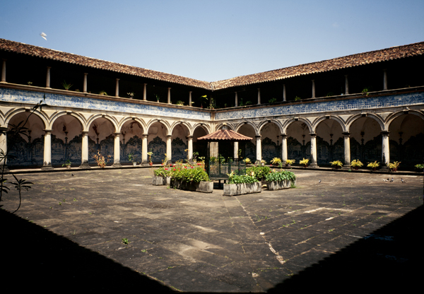 Ref.: PMa_BR_104_Salvador_de_Bahia; convento Sao Francisco; Salvador de Bahia; Brazil; Cultural heritage; South America; South America|Brazil; South America|Brazil|Salvador de Bahia; photo: Paul M.R.Maeyaert; © Paul M.R. Maeyaert